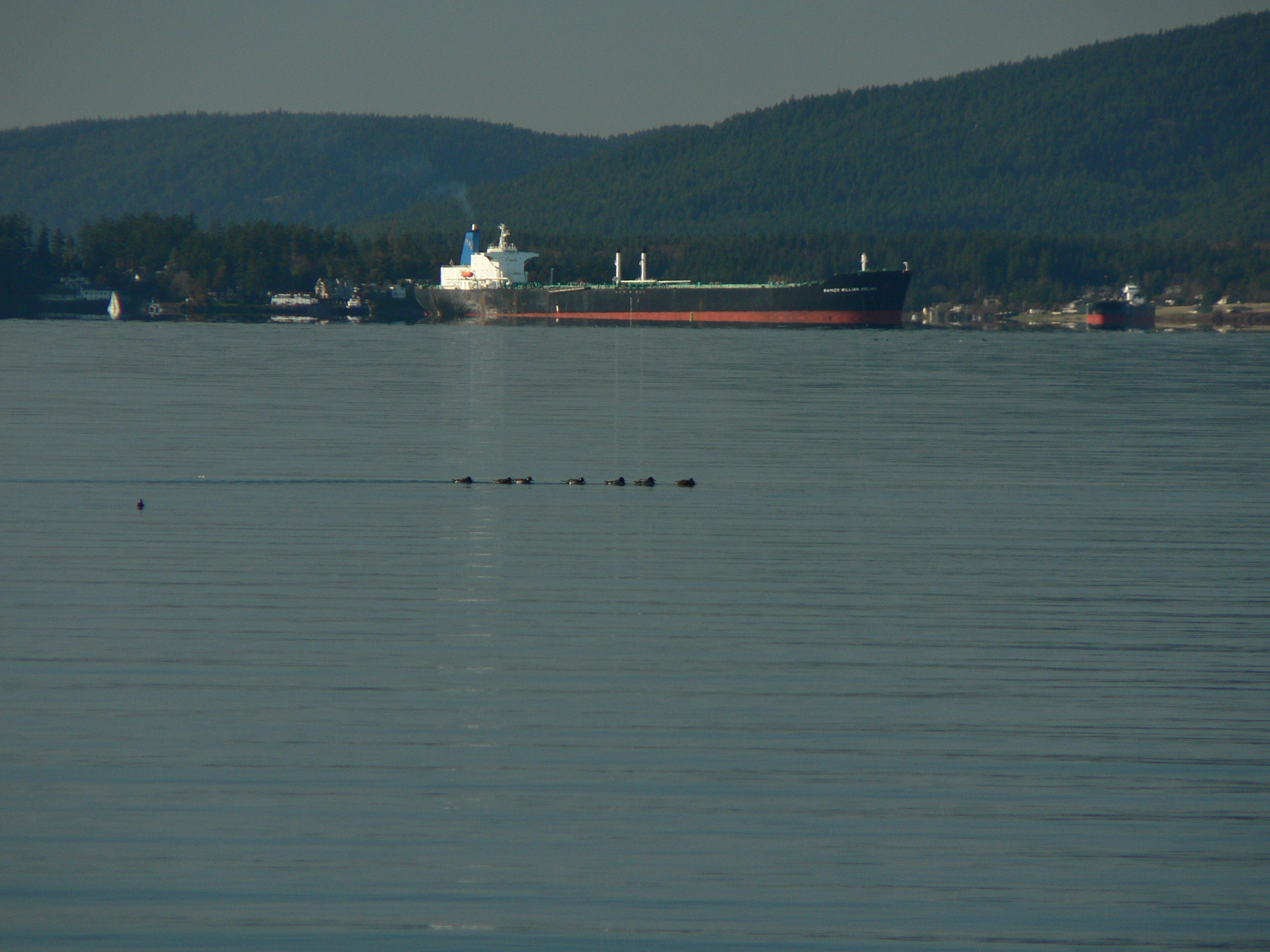 SS Prince William Sound double-hulled oil tanker (WSDX); Pintails (foreground); Padilla Bay